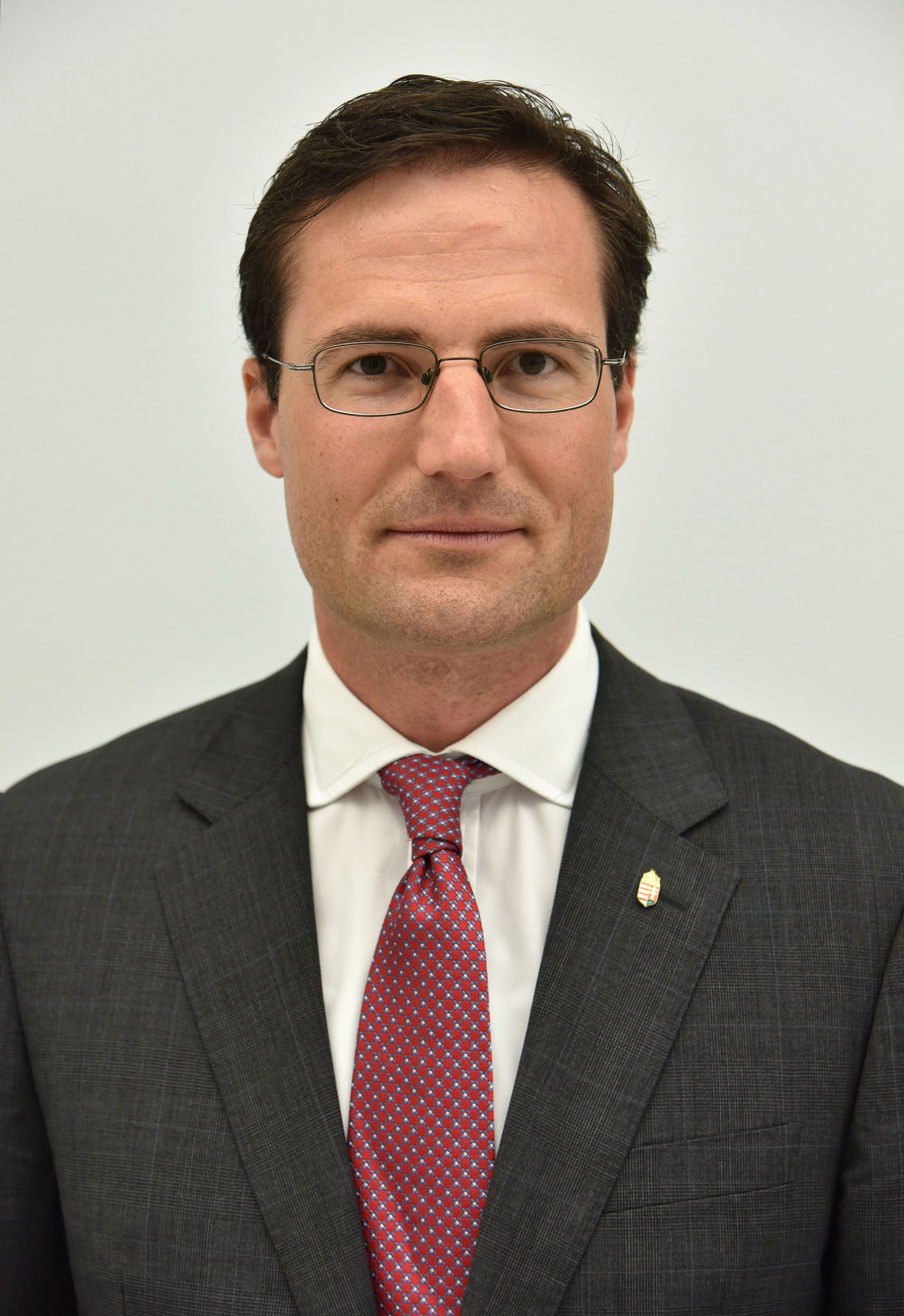 Member of the National Assembly of Hungary Márton Gyöngyösi in the Polish Sejm